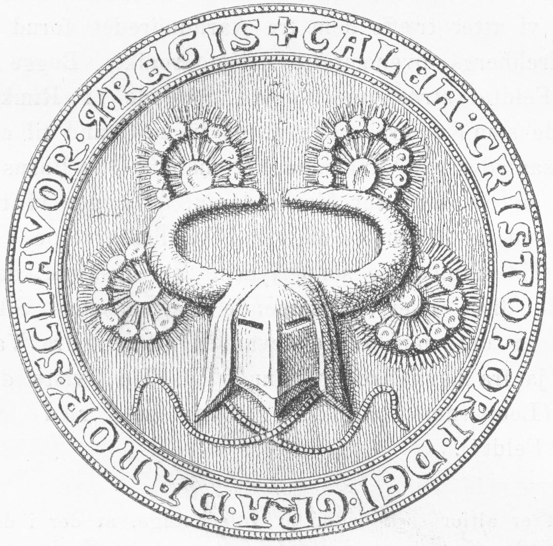 Seal of King Christopher II of Denmark, Norway and Sweden (image shows the back side of the seal).